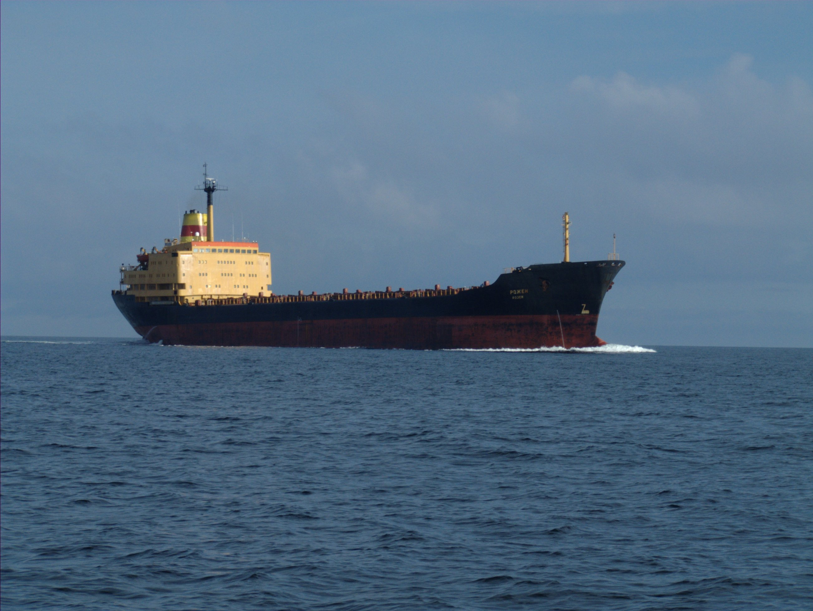 MV Rojen, enterance to Kattegat IMO Number: 7702827 MMSI Number: 207088000 Callsign: LZKH Length: 185 m Beam: 22 m